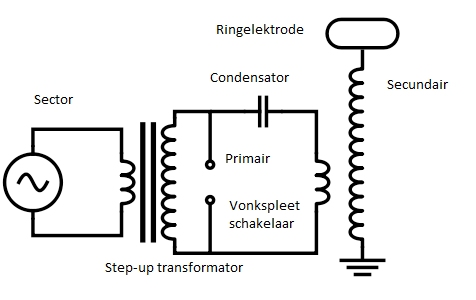 Tesla